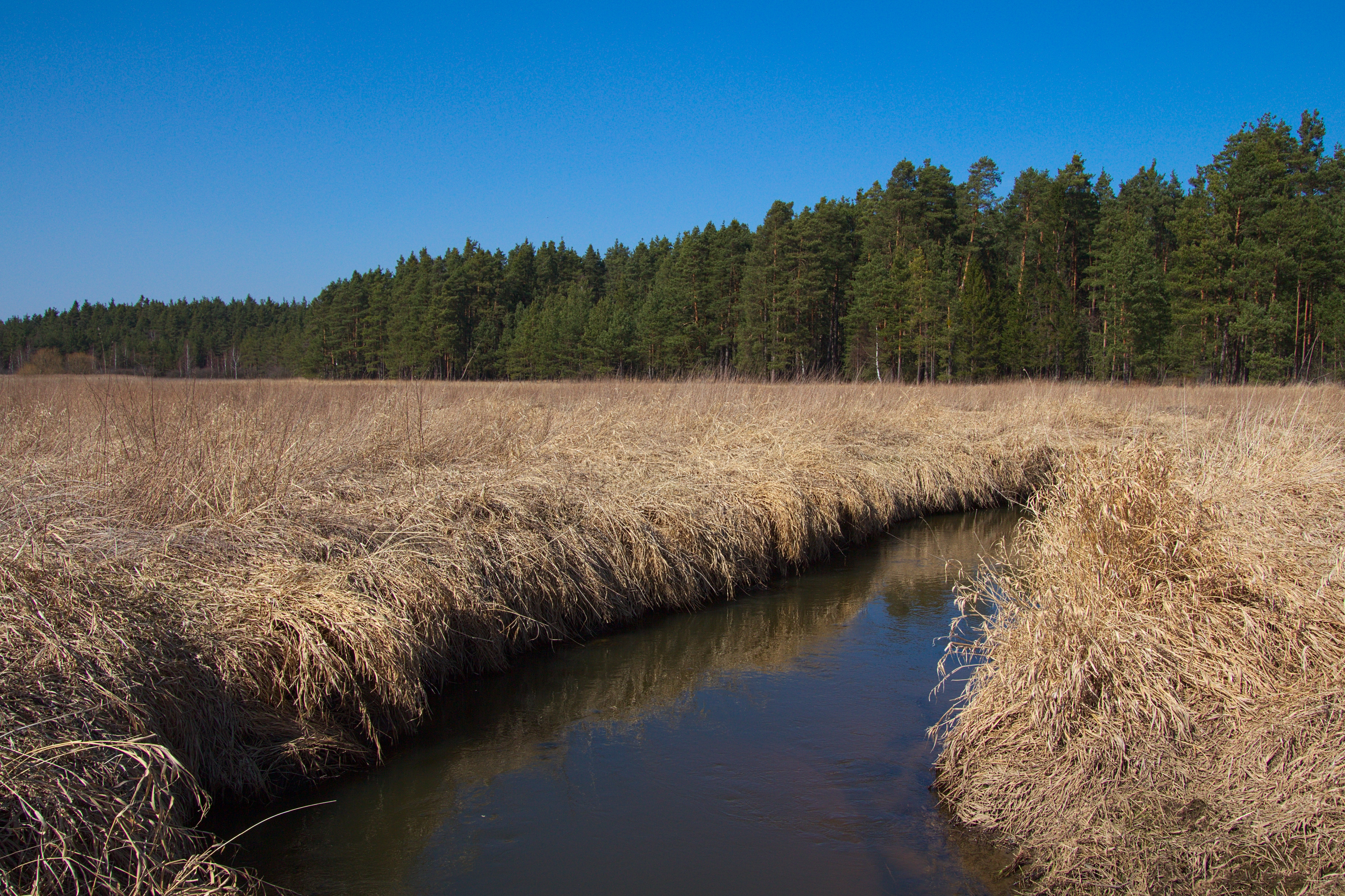 National natural reserve Brouskův mlýn in České Budějovice District, Czech Republic